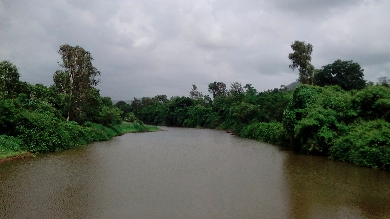 Dharampur has wide variety of flora and fauna and scenic river trajectory. A picture taken by photo enthusiastic Rajendrakumar Pavar of kelavni river 13 km from Dharampur endorses beauty of region.